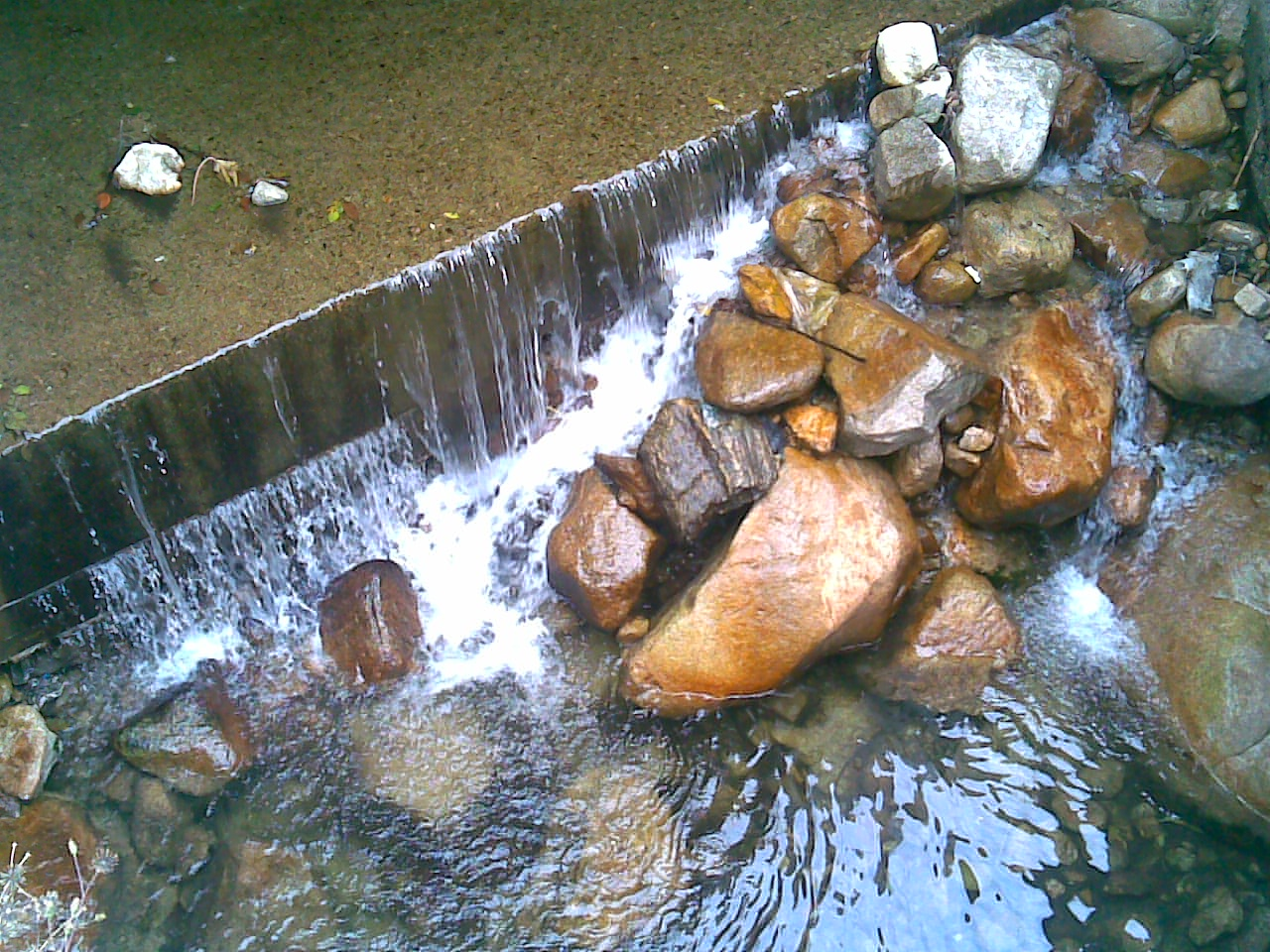 River At Mucuruba /Merida /Venezuela